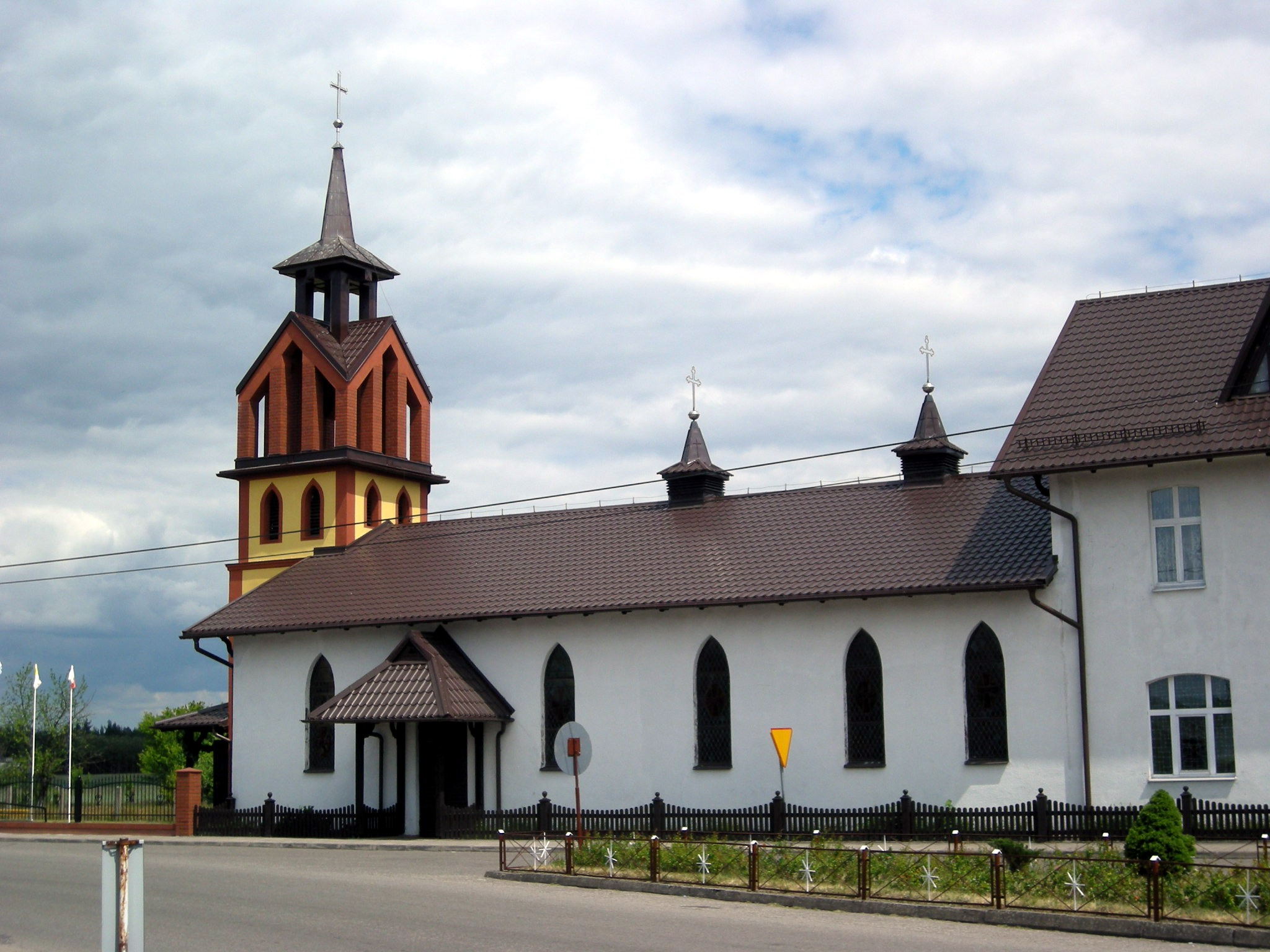 The church in Szlachta, Poland.